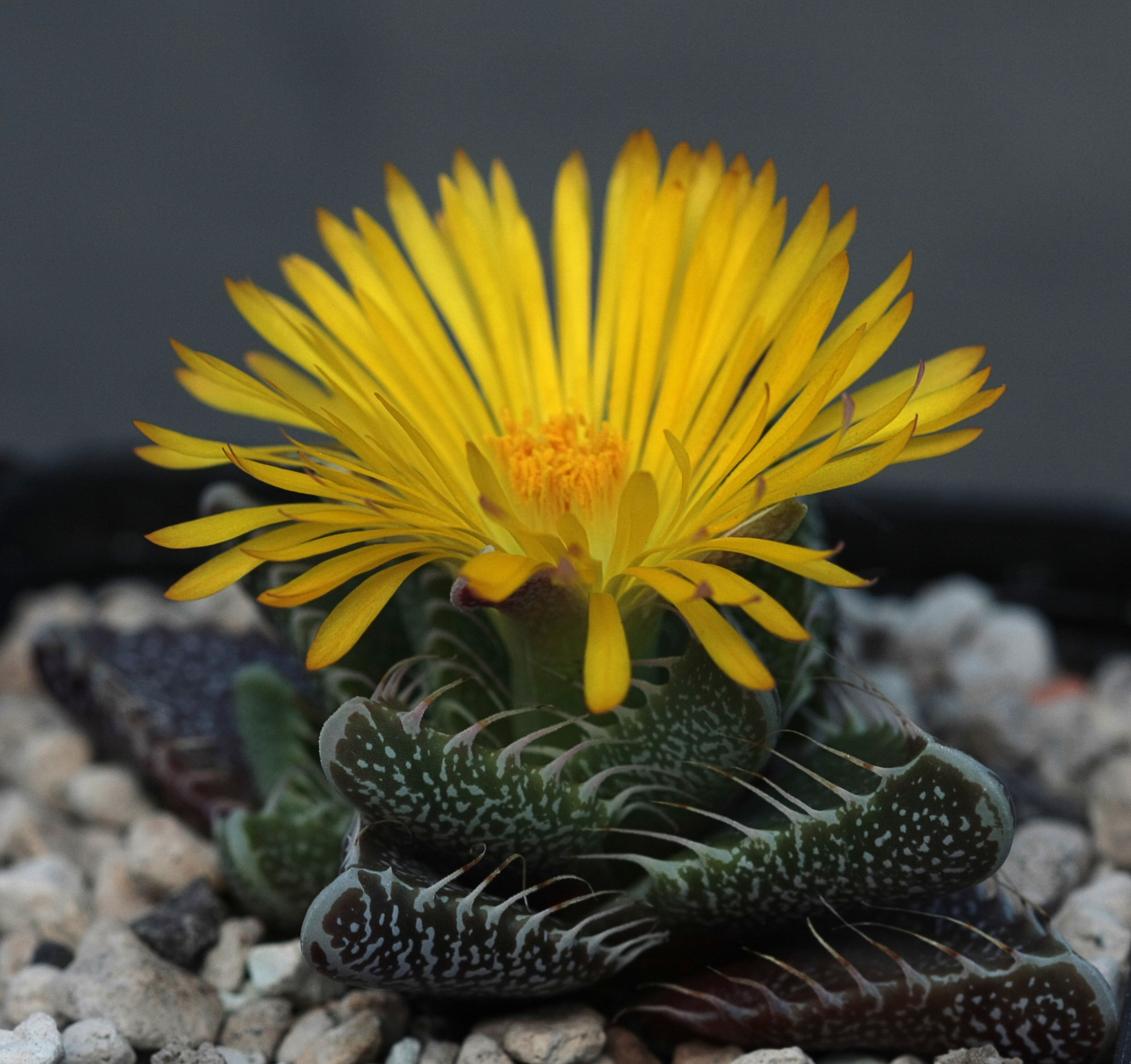 Faucaria felina